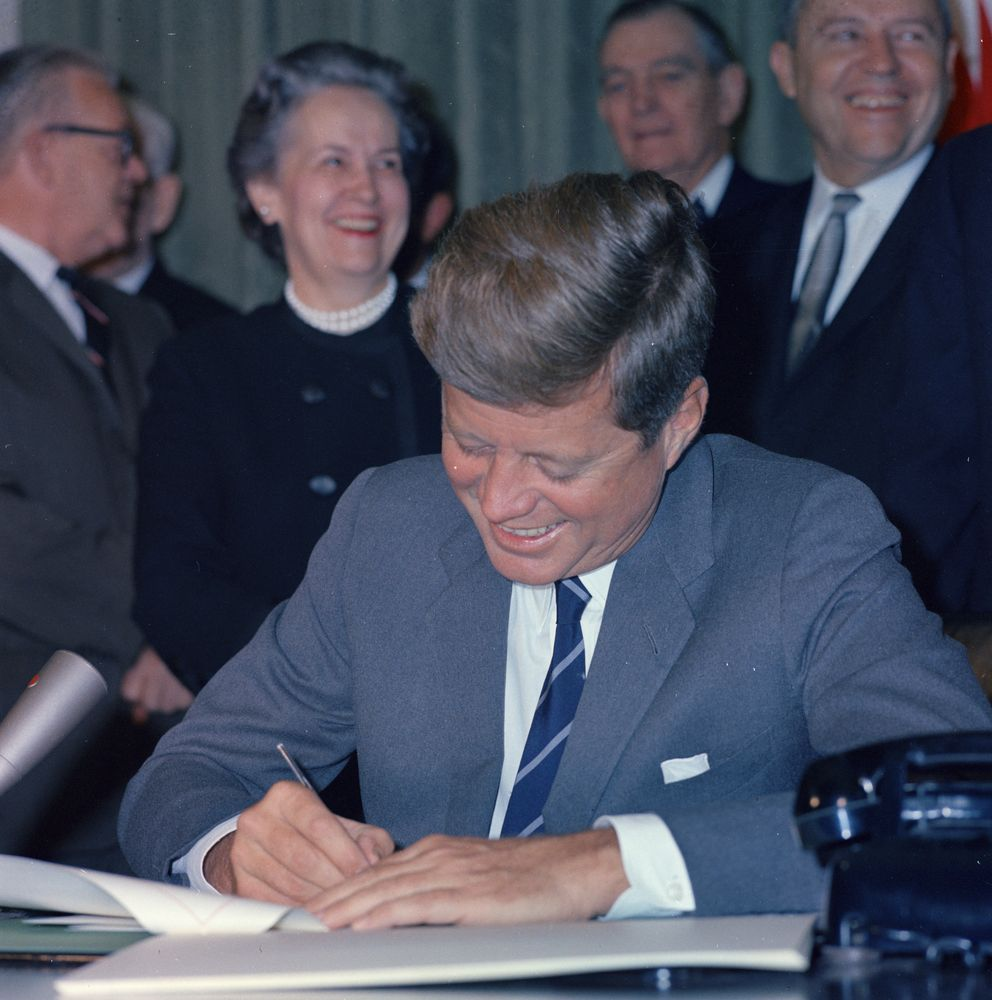 President John F. Kennedy signs the Mental Retardation Facilities and Community Mental Health Center Construction Act. Looking on (L-R): Representative Leo W. O’Brien of New York; Representative Edith Green of Oregon; Representative Albert Thomas of Texas; Senator Ralph Yarborough of Texas. Cabinet Room, White House, Washington, D.C.